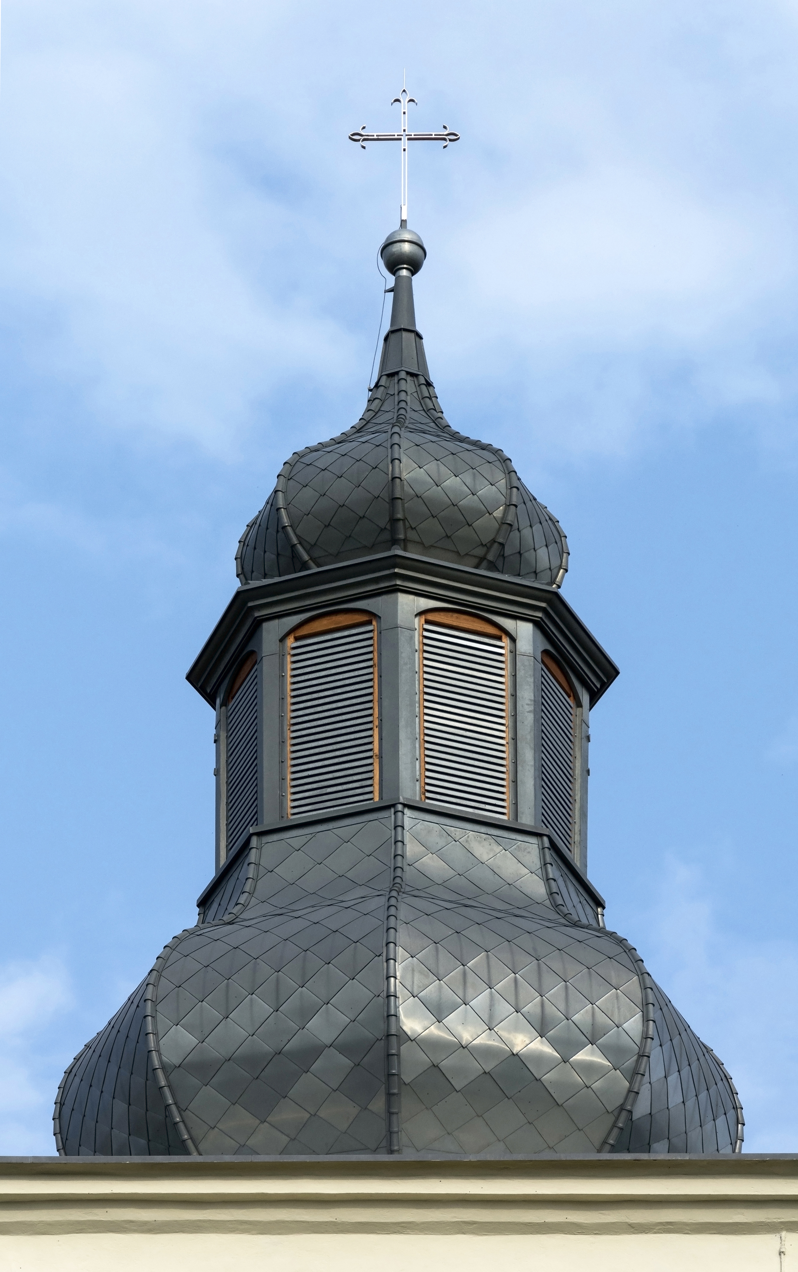 Church of St. Martin in Dzikowiec, tented roof